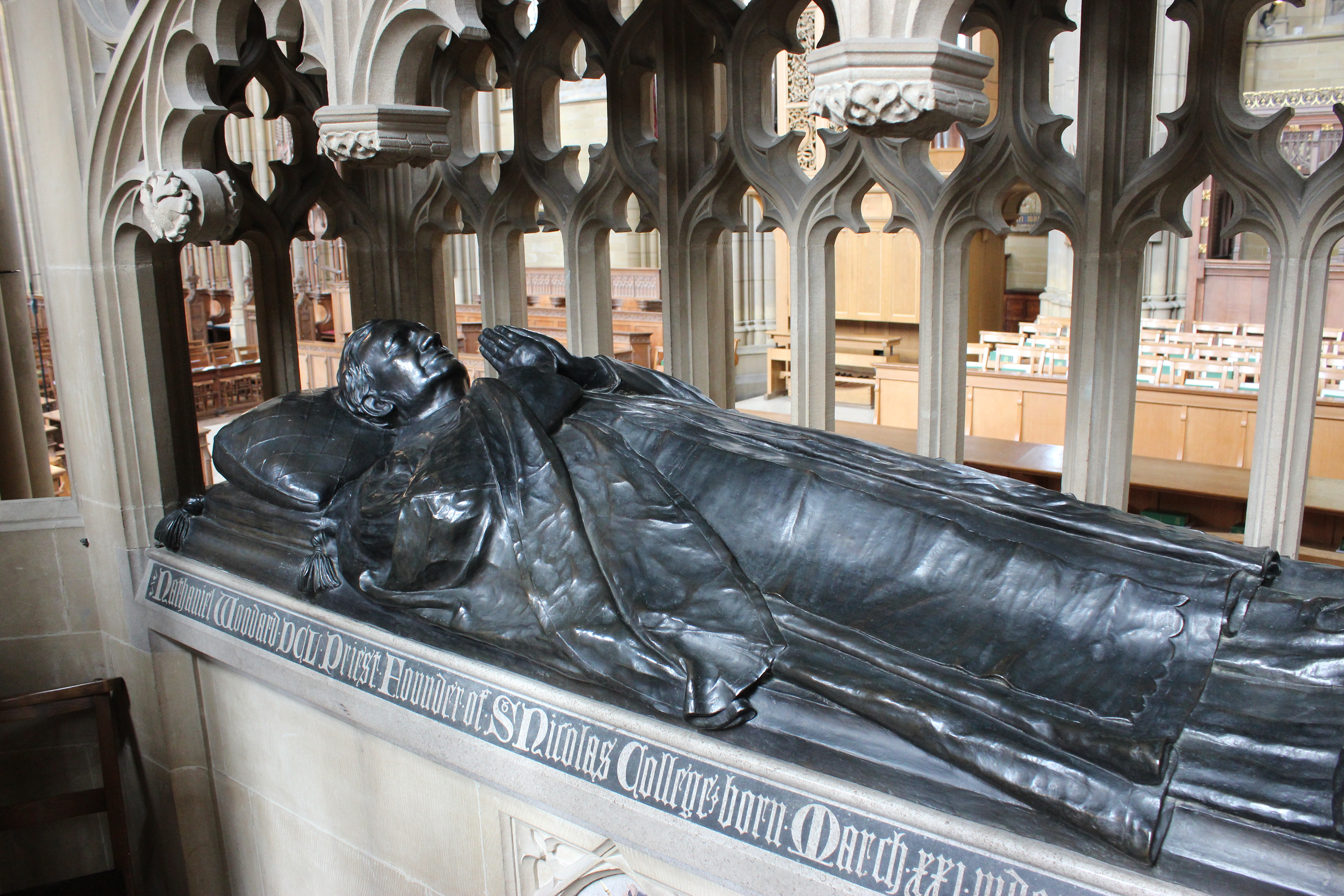 Tomb of Canon Nathaniel Woodard at Lancing College, West Sussex